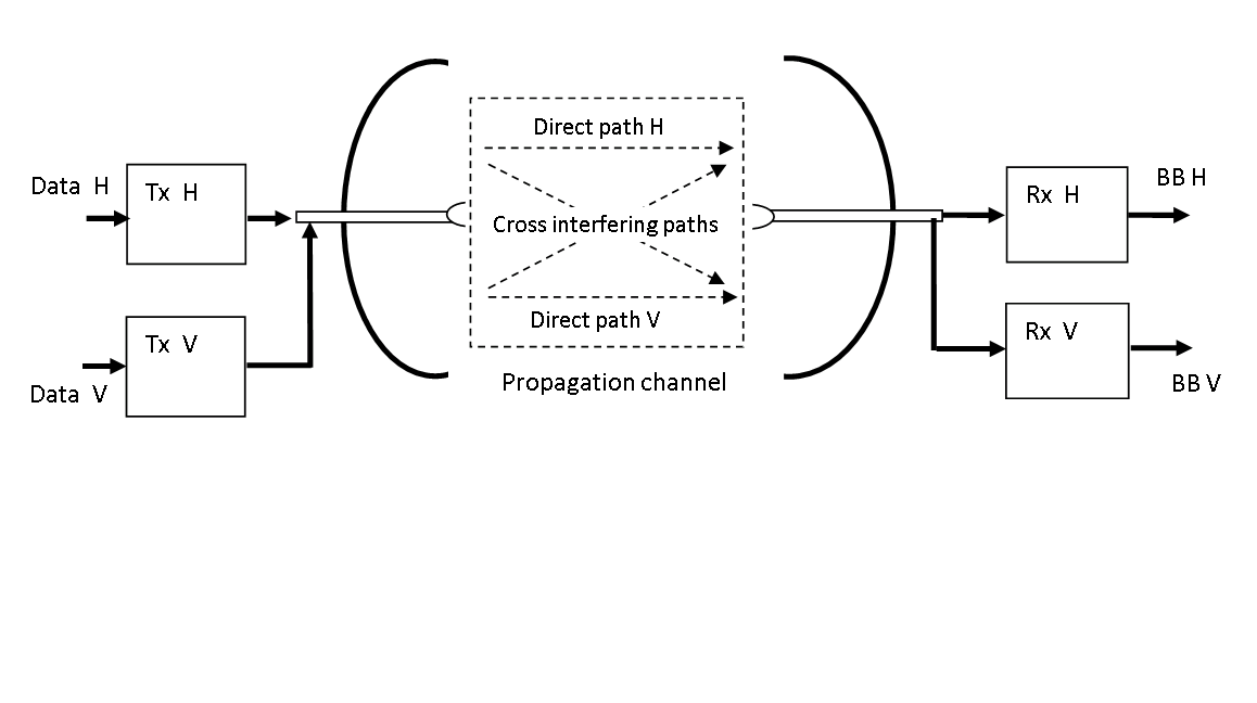 XPIC ex1